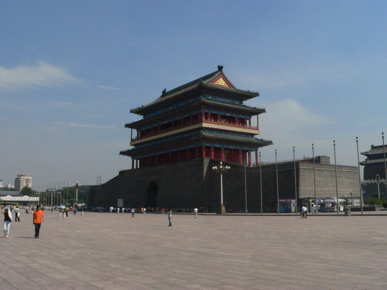 Gate tower at the Tiananmen Square, Beijing